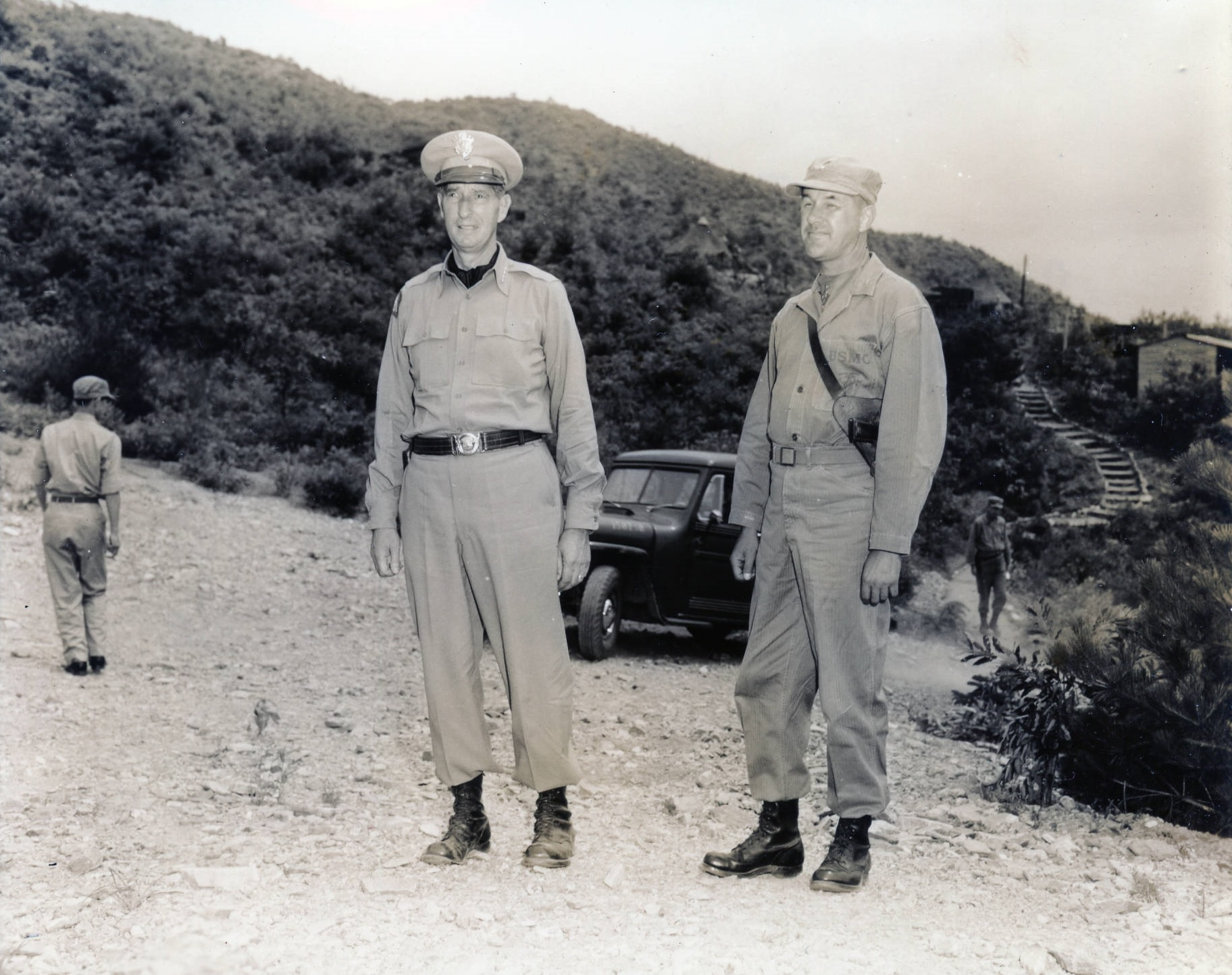 General Mark W. Clark, Commander in Chief, United Nations Command, (left) and Brigadier General Robert O. Bare, Assistant Division Commanding General, 1st US Marine Division, prepare to leave by helicopter for the 1st Commonwealth Division. They are at the M 06 Airstrip, 1st US Marine Div, Korea. July 13, 1952.